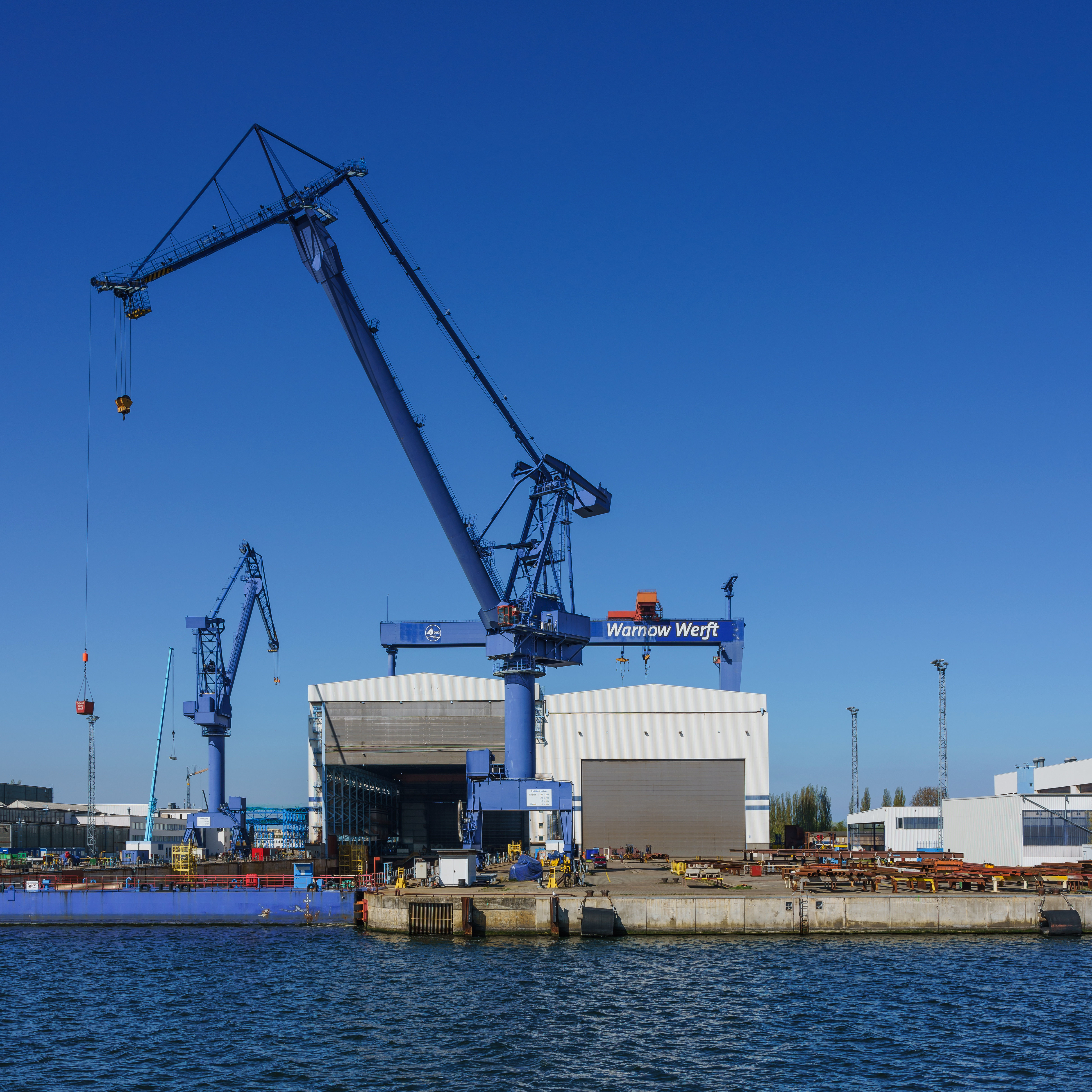 Shipyard near Warnemünde, Rostock, Germany